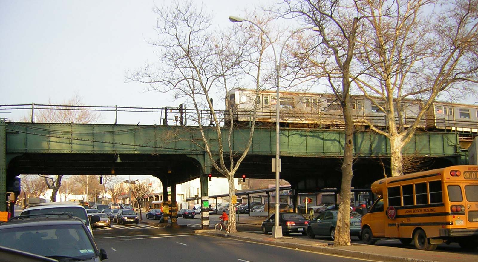 Jamaica-bound J train crosses Eastern Parkway, entering Broadway Junction (New York City Subway) station. Camera is facing east.